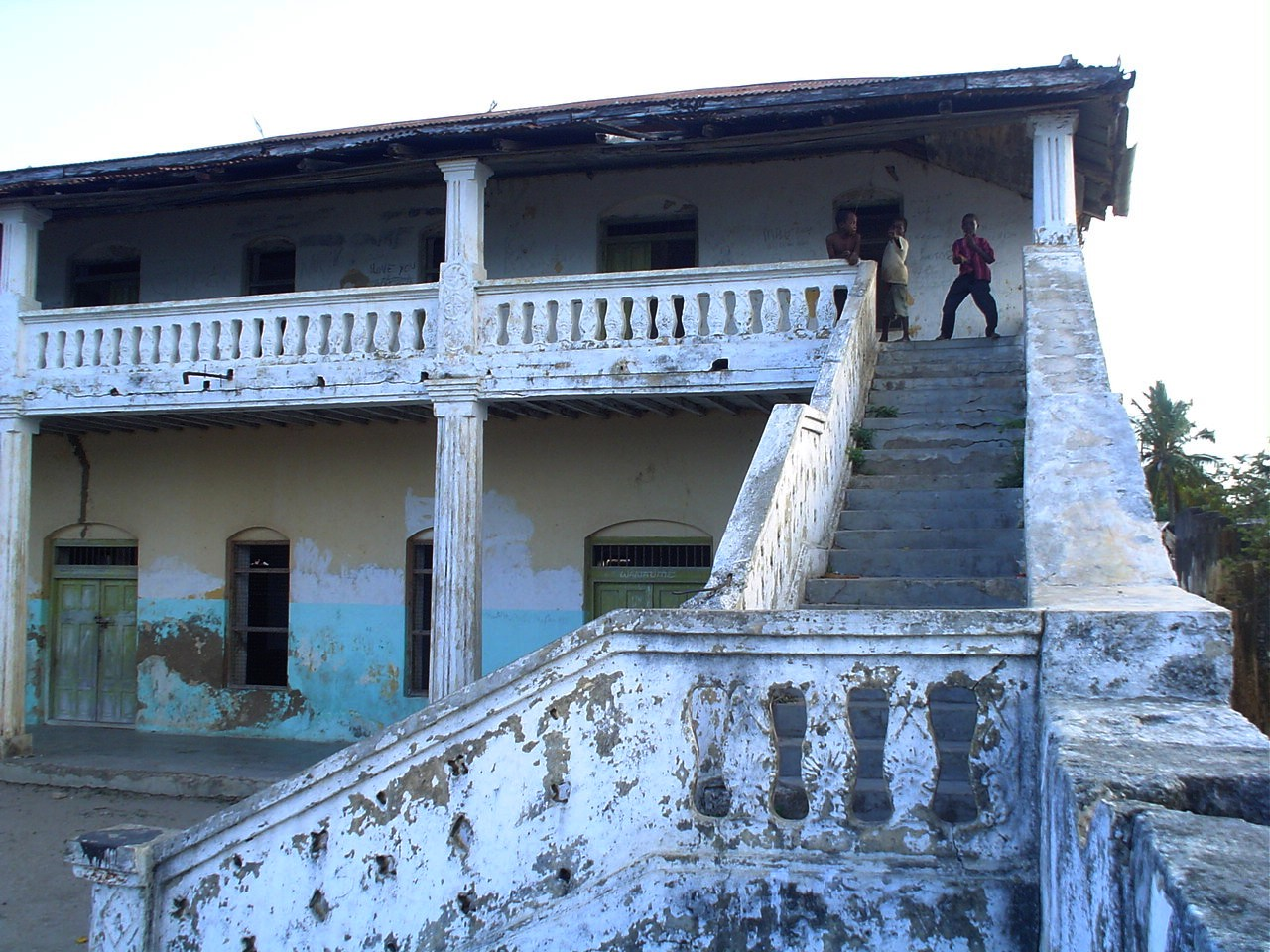 Building (school?) in colonial style in Mikindani, Tanzania